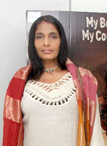 Anu Aggarwal snapped at the special screening of Begum Jaan